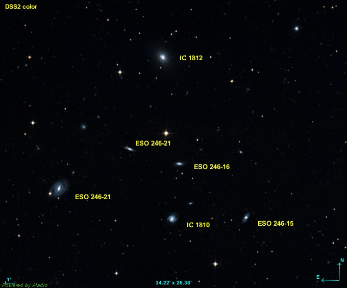 "Image created using the Aladin Sky Atlas software from the Strasbourg Astronomical Data Center and DSS (Digitized Sky Survey) data. DSS is one of the programs of STScI (Space Telescope Science Institute) whose files are in the public domain " This image is not a DSS's image!